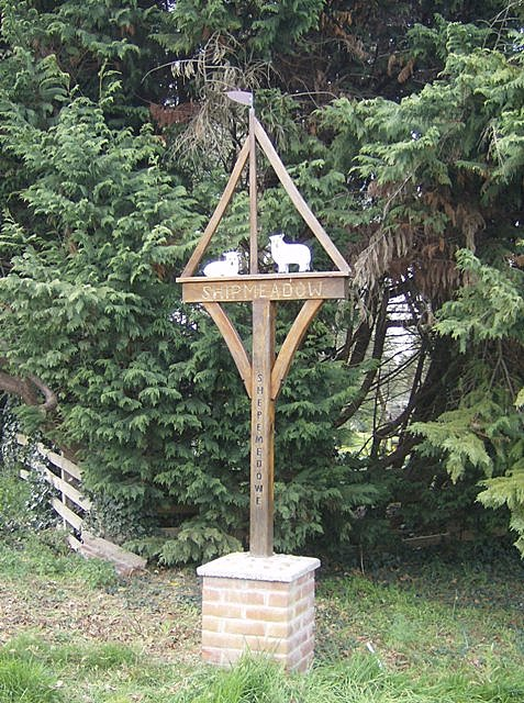 Shipmeadow village sign The sign perhaps hedges its bets as to whether the village name derived from "ship meadow" (as large boats would have come up this far on the River Waveney) or "sheep meadow".